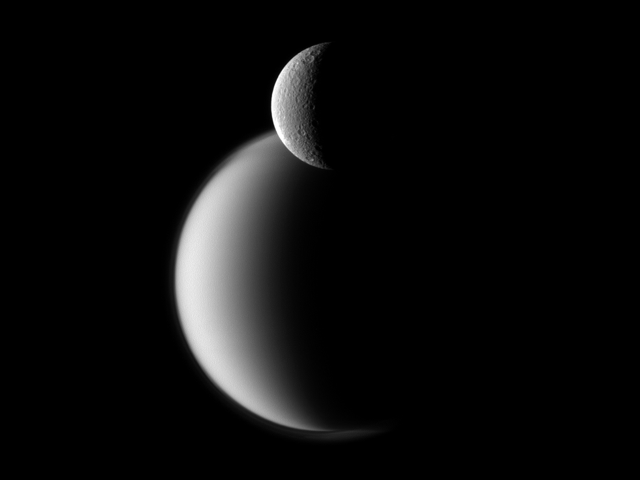 Craters appear well defined on icy Rhea in front of the hazy orb of the much larger moon Titan in this Cassini spacecraft view of these two Saturn moons. Lit terrain seen here is on the leading hemispheres of Rhea and Titan. North on the moons is up and rotated 13 degrees to the left. The limb, or edge of the visible disk, of Rhea is slightly overexposed in this view. The image was taken in visible green light with the Cassini spacecraft narrow-angle camera on Dec. 10, 2011. The view was acquired at a distance of approximately 1.2 million miles (2 million kilometers) from Titan and at a Sun-Titan-spacecraft, or phase, angle of 109 degrees. The view was acquired at a distance of approximately 810,000 miles (1.3 million kilometers) from Rhea and at a Sun-Rhea-spacecraft, or phase, angle of 109 degrees. Image scale is 8 miles (12 kilometers) per pixel on Titan and 5 miles (8 kilometers) per pixel on Rhea.